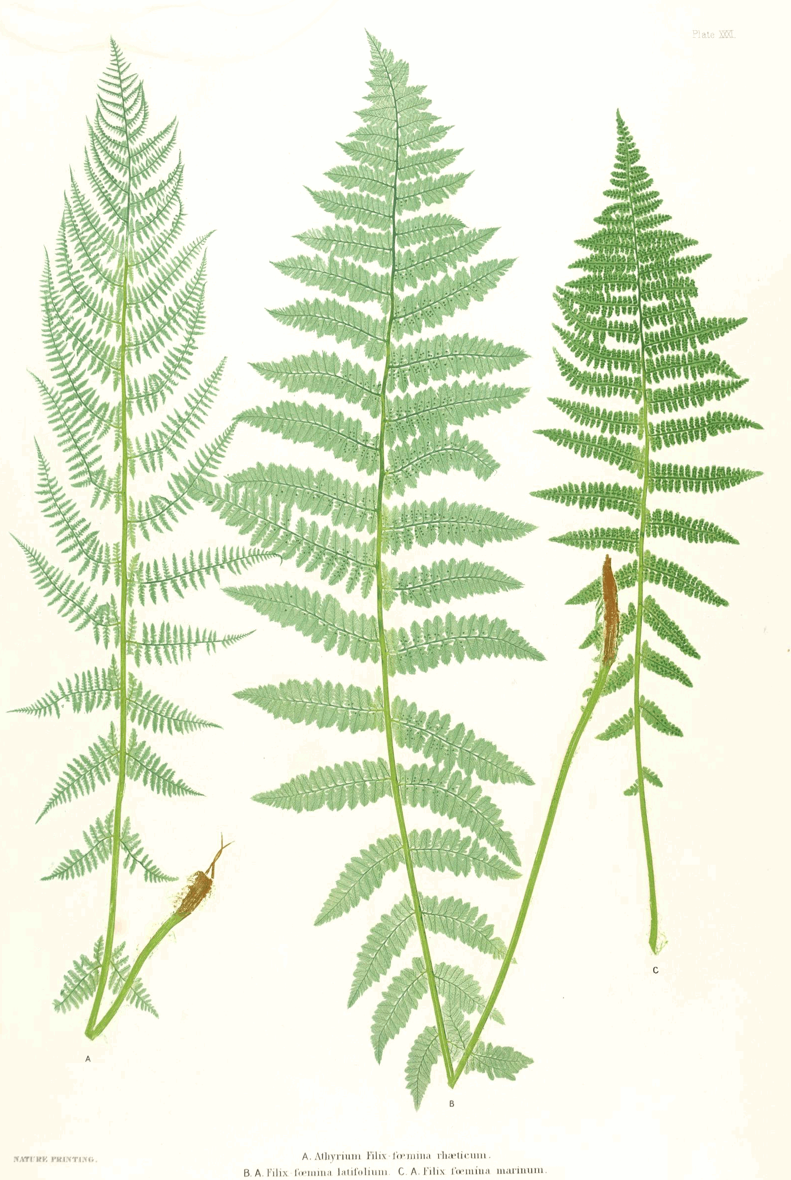 Plate from book